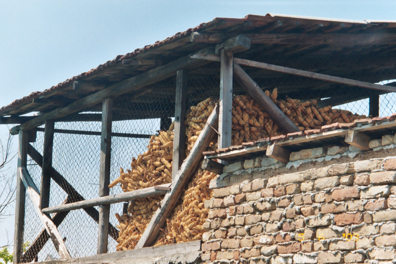 A hambar (or pătul) still in heavy use in Hatzfeld/Jimbolia, Romanian Banat, albeit with the traditional wooden slats replaced with chicken wire. A hambar is a type of "corn crib" commonly used for storing and drying maize in the Balkans.